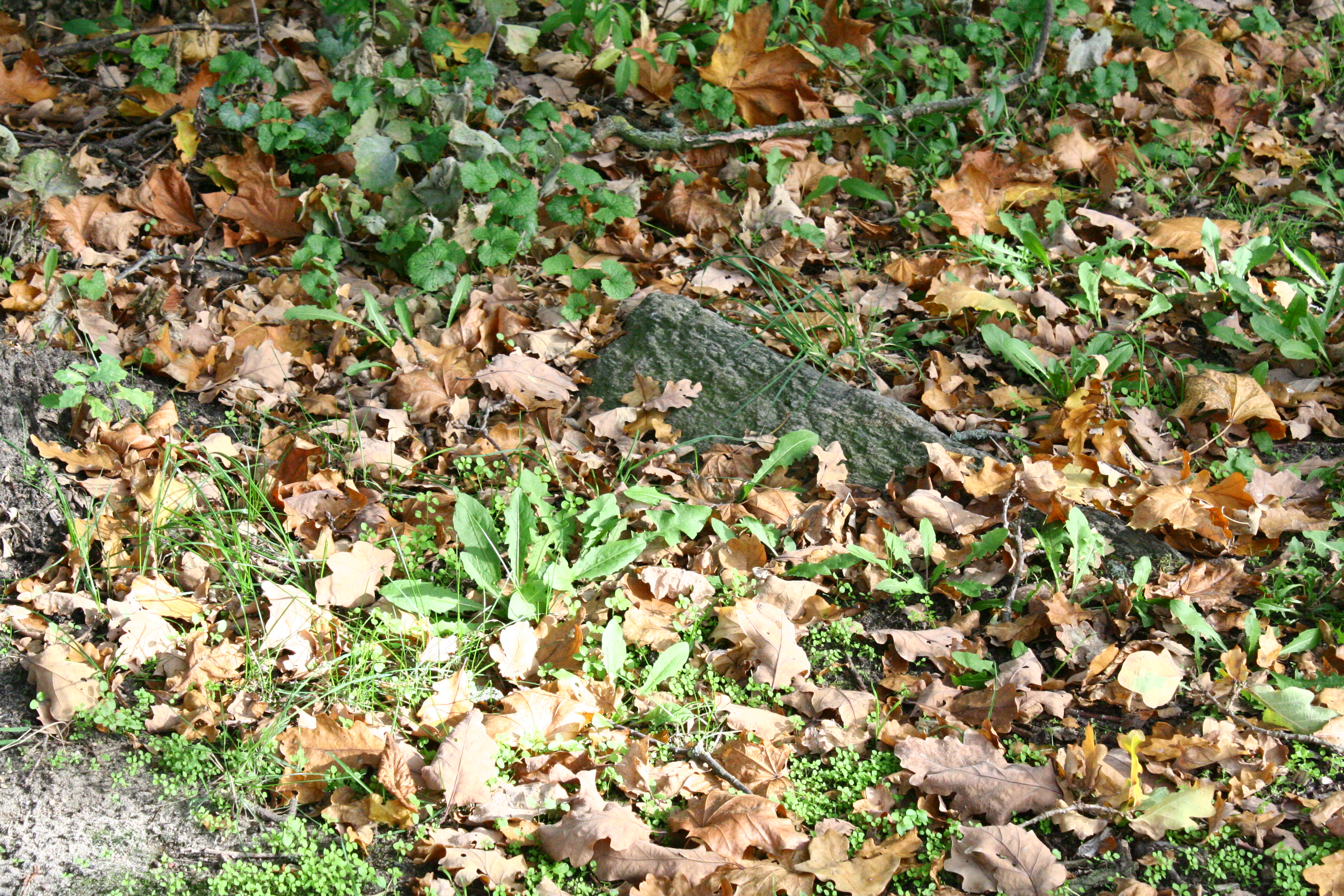 Possible remains of the megalithic tomb Süplingen 2